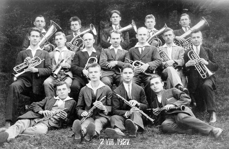 Brass band of Christian Fellowship (Lutheran Organisation) in Oldřichovice, Czechoslowakia